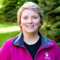 Sona Mehring Headshot